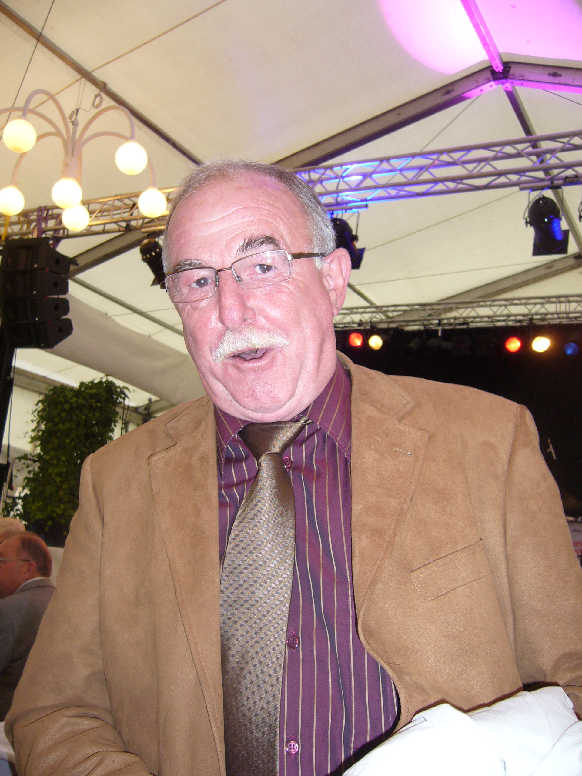 Fritz Buschle, member of the State Diet of Baden-Württemberg